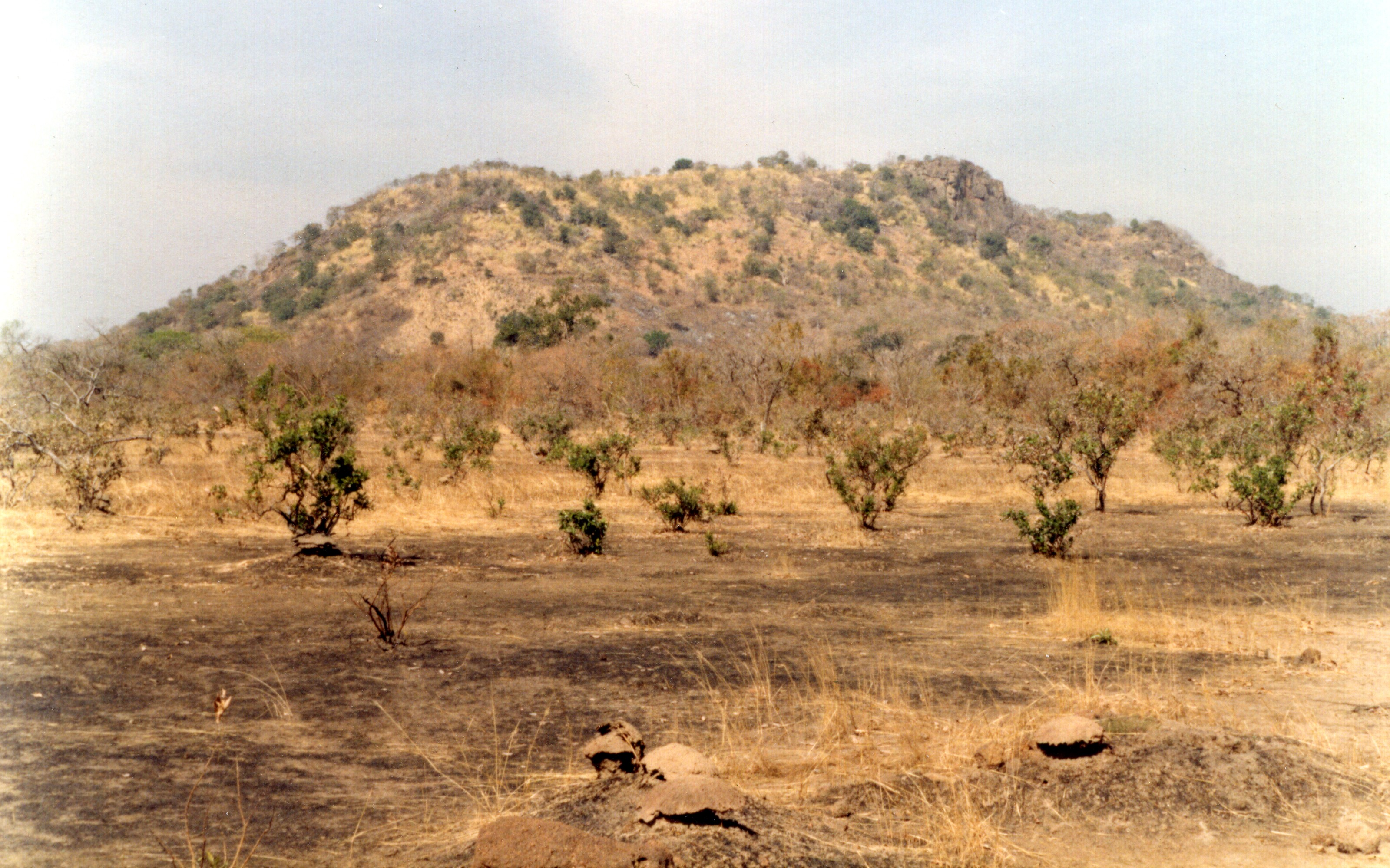 Between Ibel and Bandafassi, Senegal (West Africa)